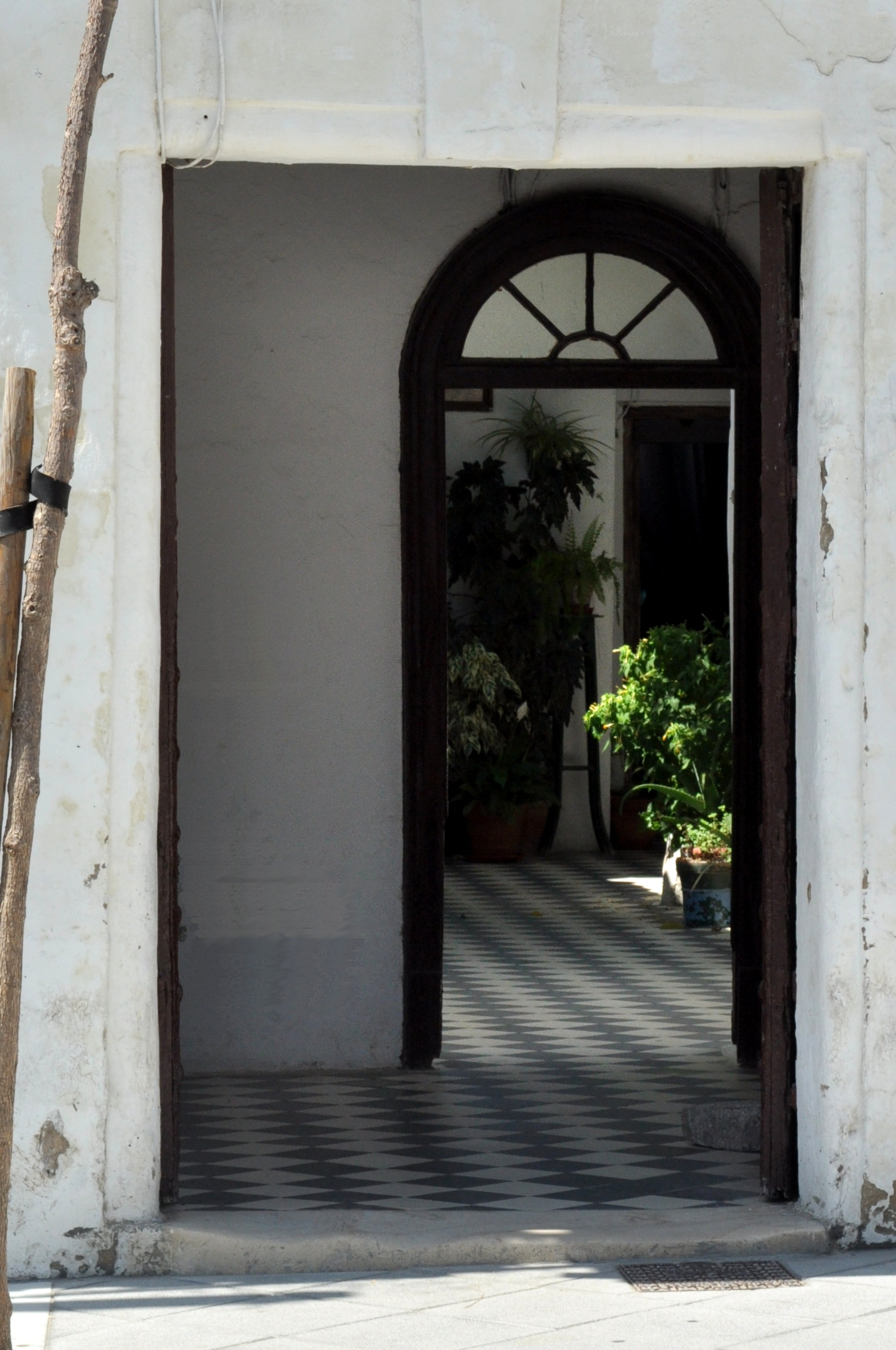 House in barrio de Santiago, Jerez